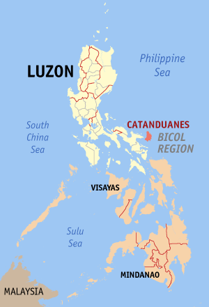 Map of the Philippines showing the location of Catanduanes